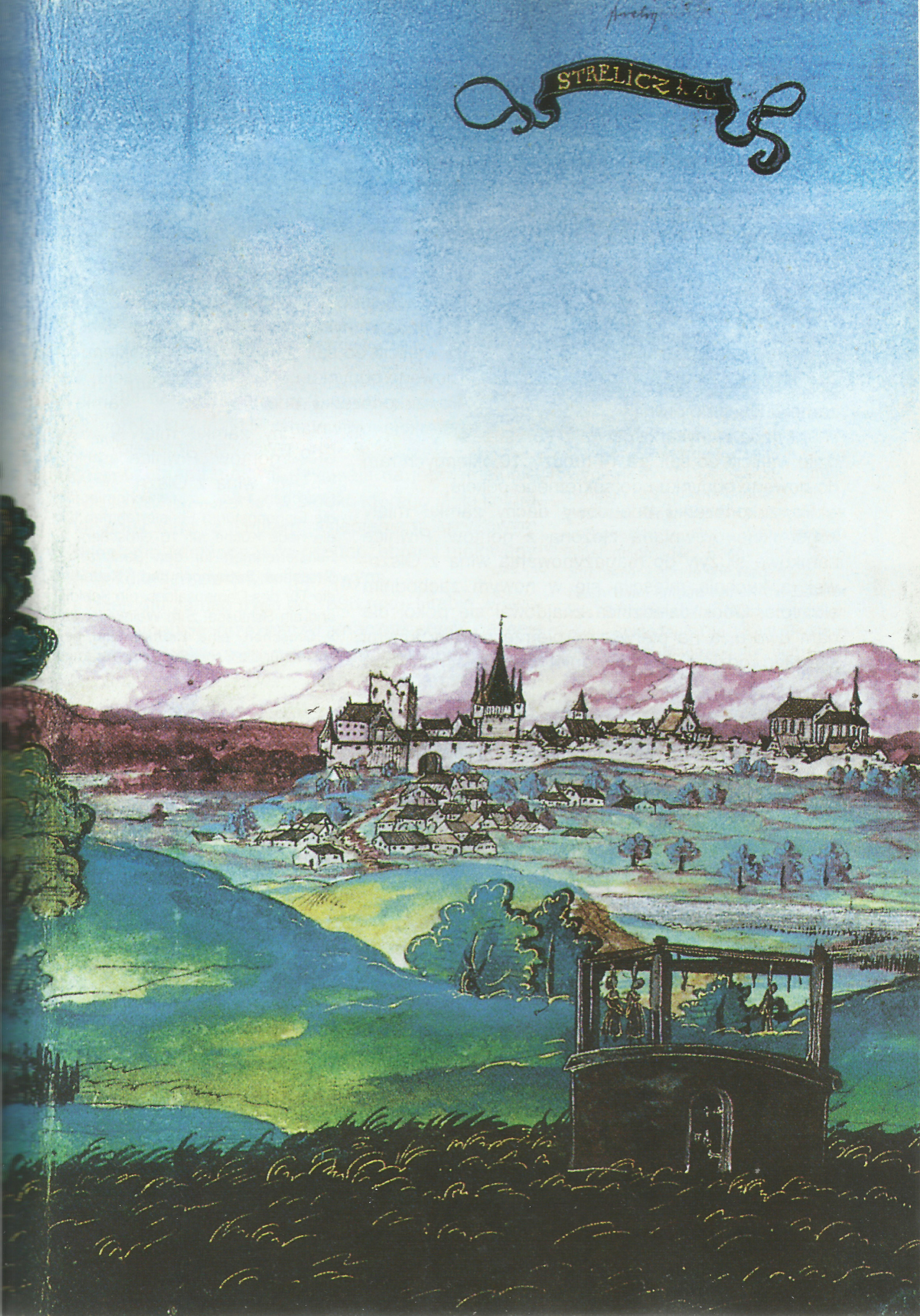 View of the town of Strzelce Opolskie, 1536